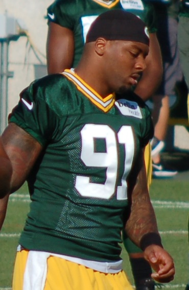 2015 Packers training camp